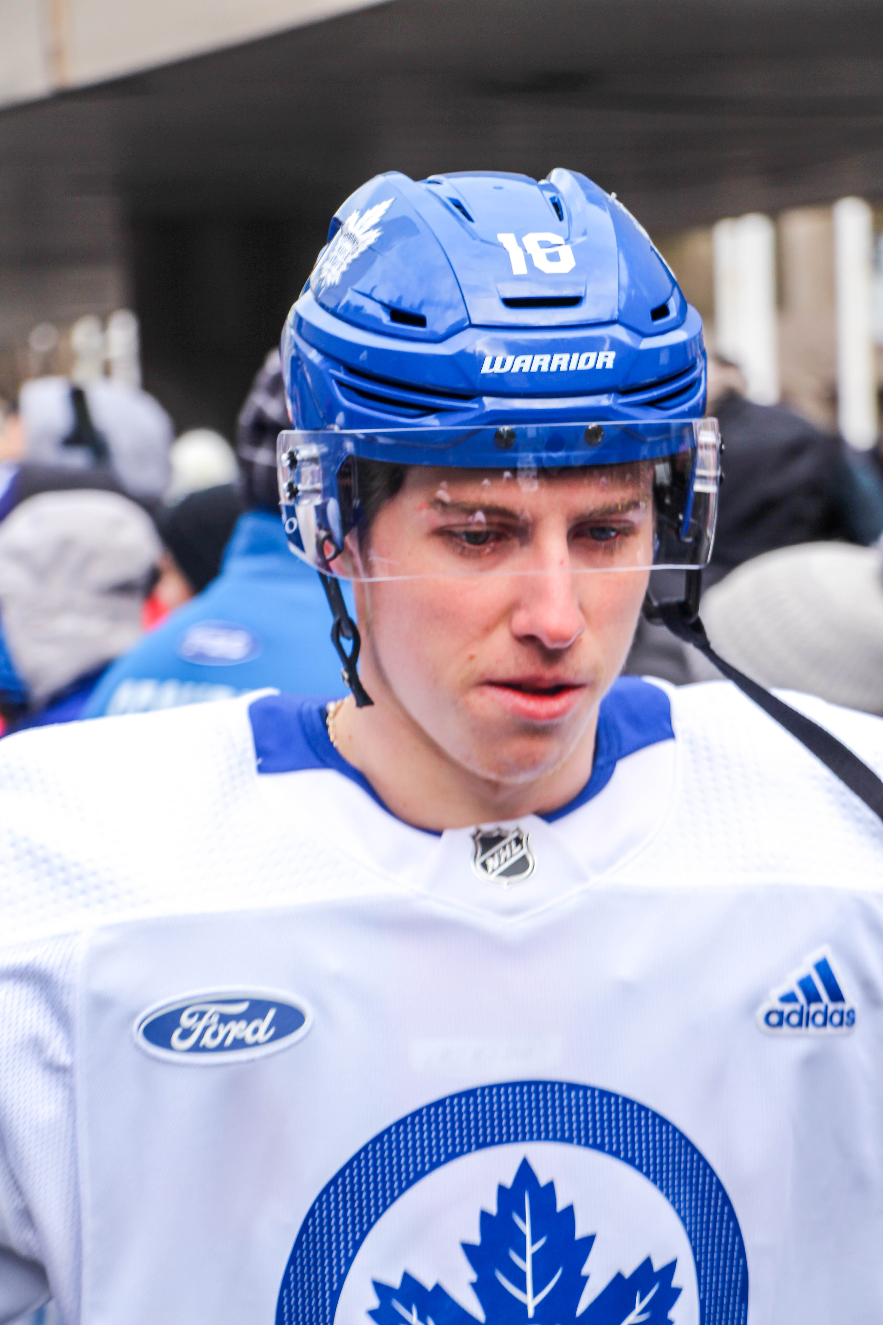 Mitch Marner arriving at the Toronto Maple Leafs outdoor practice